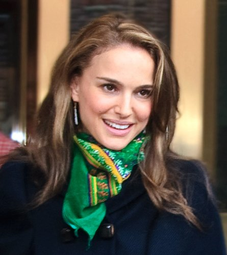 Natalie Portman at the 2009 Toronto International Film Festival.